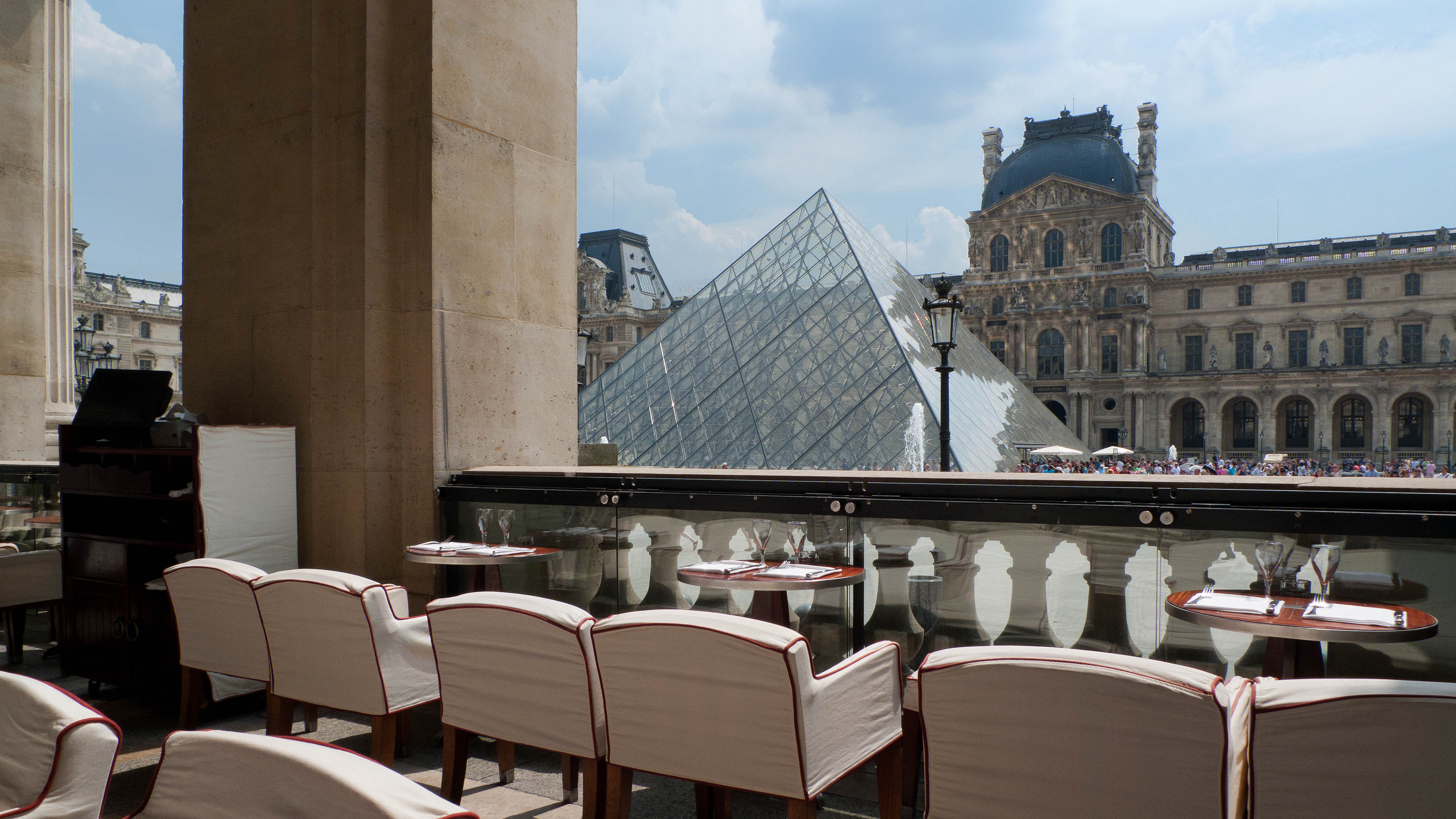 The Café Marly is a contemporary brasserie offering a stunning view of the Louvre pyramid, Paris.